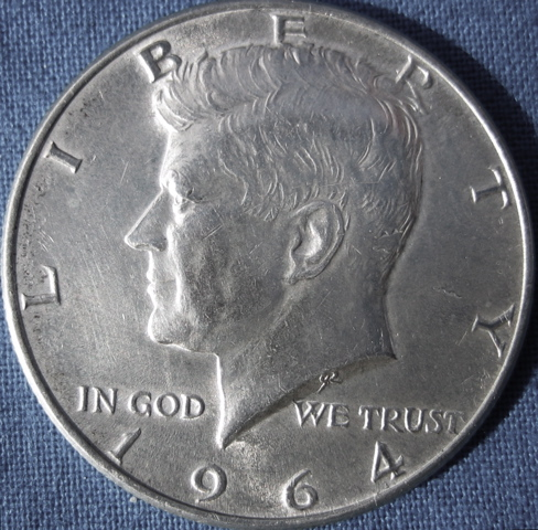 "Kennedy Halves" Half Dollar Kennedy 1964